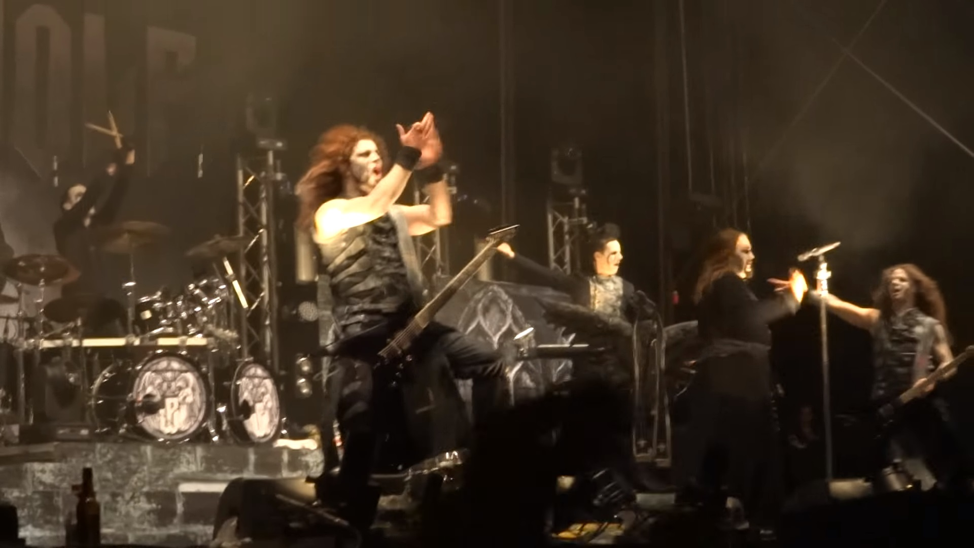 Powerwolf performing live at Out and Loud 2014.